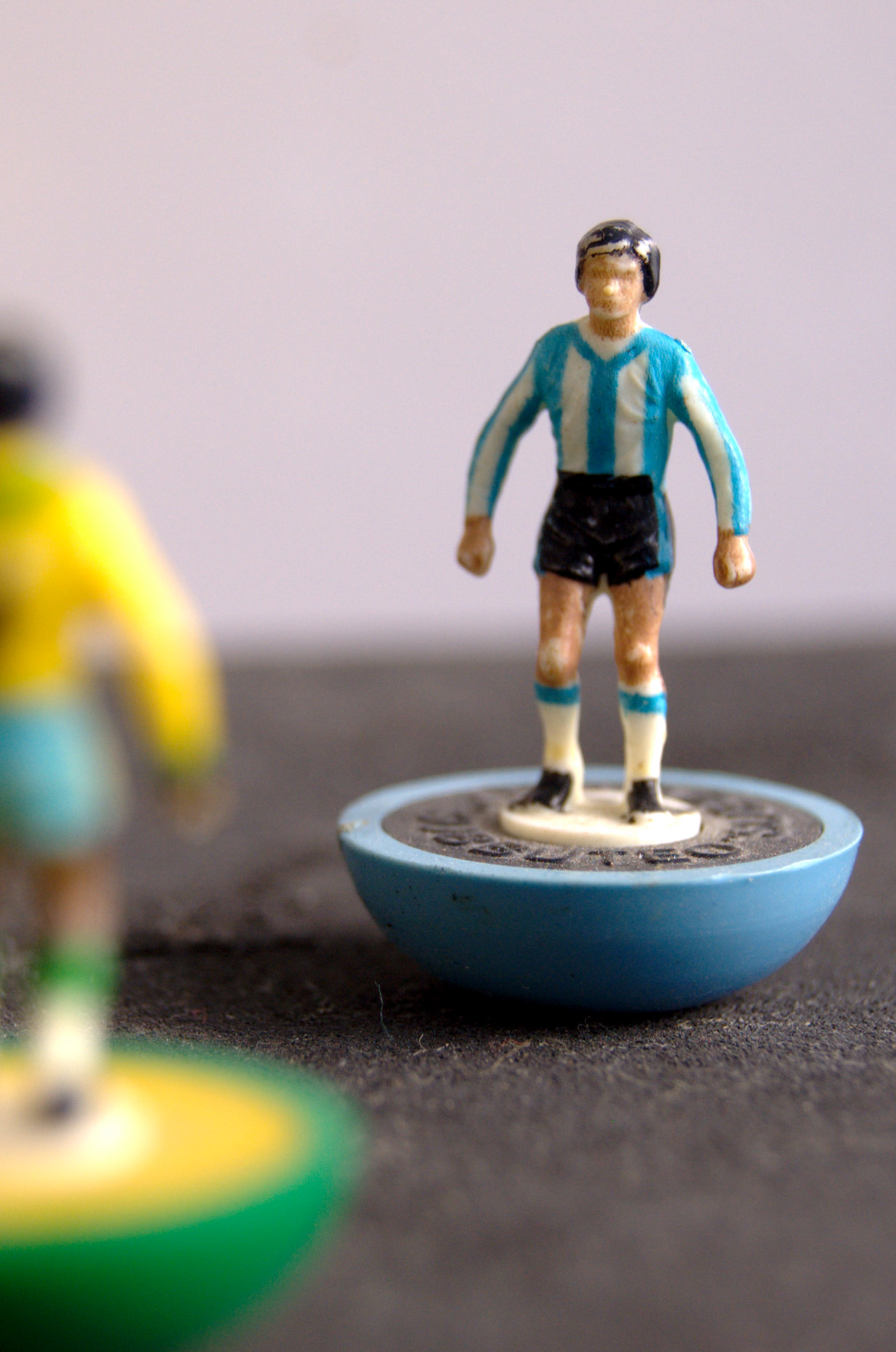 Subbuteo figures from the 80s. High DOF. The figure in the foreground in the colors of the Brazil national team, and the main figure in the colors of the Argentina national team.